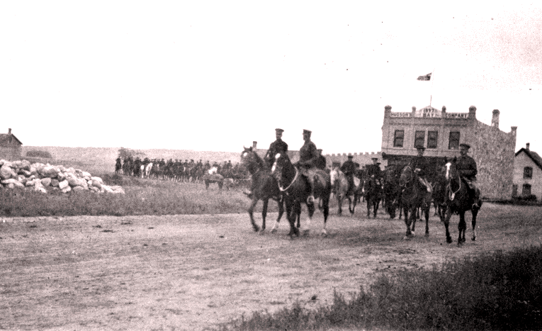 The 16th Light Horse in Fort Qu'Appelle